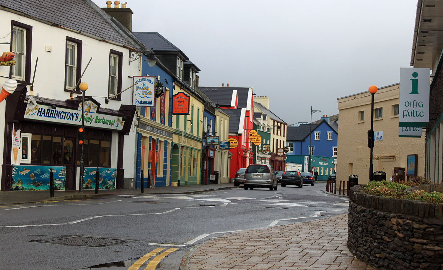 Sráid Na Tra, Quay Street, Dingle